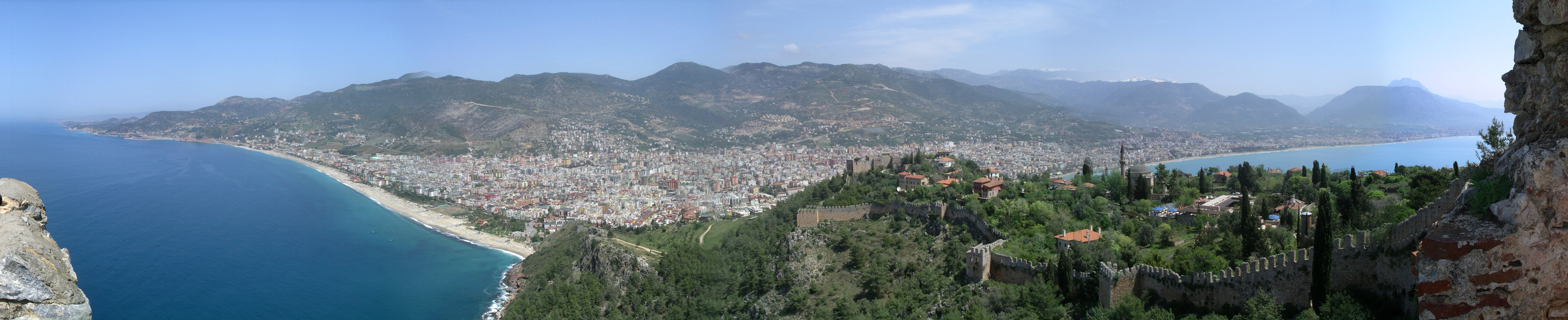 panorama of Alanya, Turkey from the west side of the citadel.